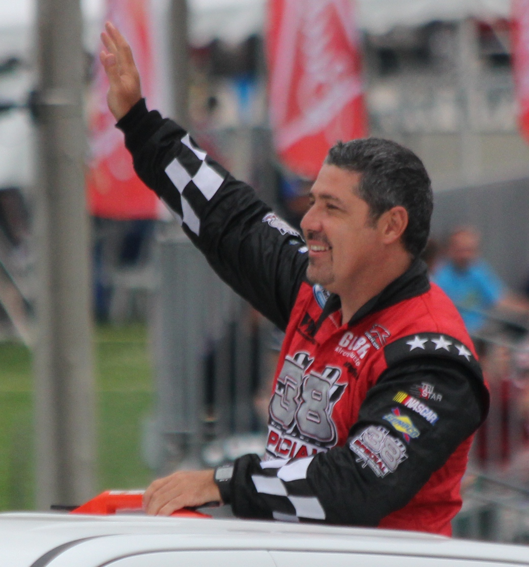 NASCAR Nationwide Series driver Carlos Contreras (racing driver) waves to the crowd at the 2014 Gardner Denver 200 event at Road America.